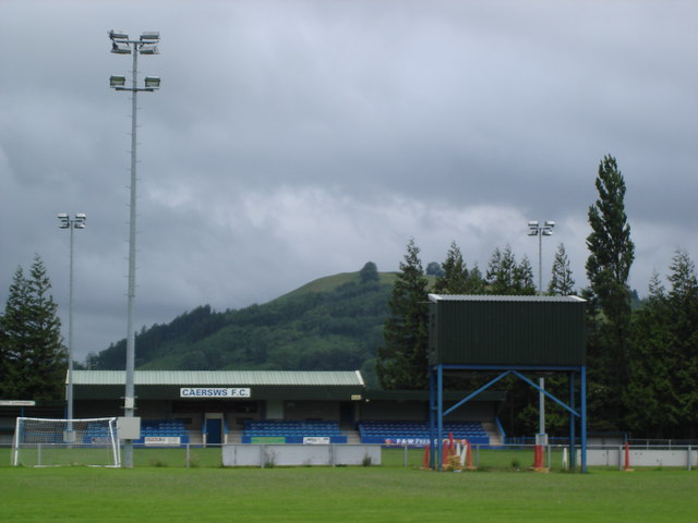 Caersws Football Club